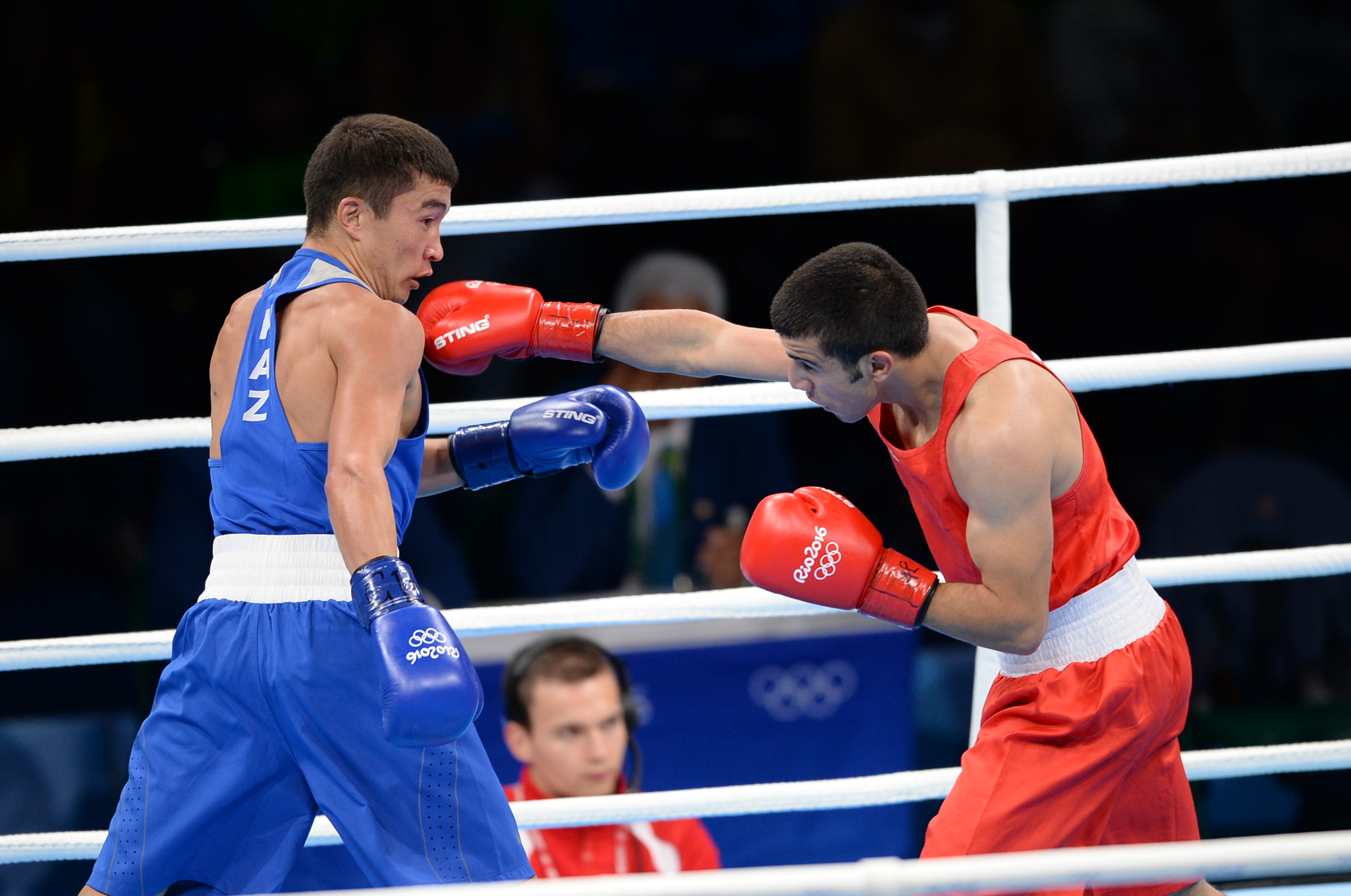 Boxing at the 2016 Summer Olympics, Chalabiyev vs Yeraliyev